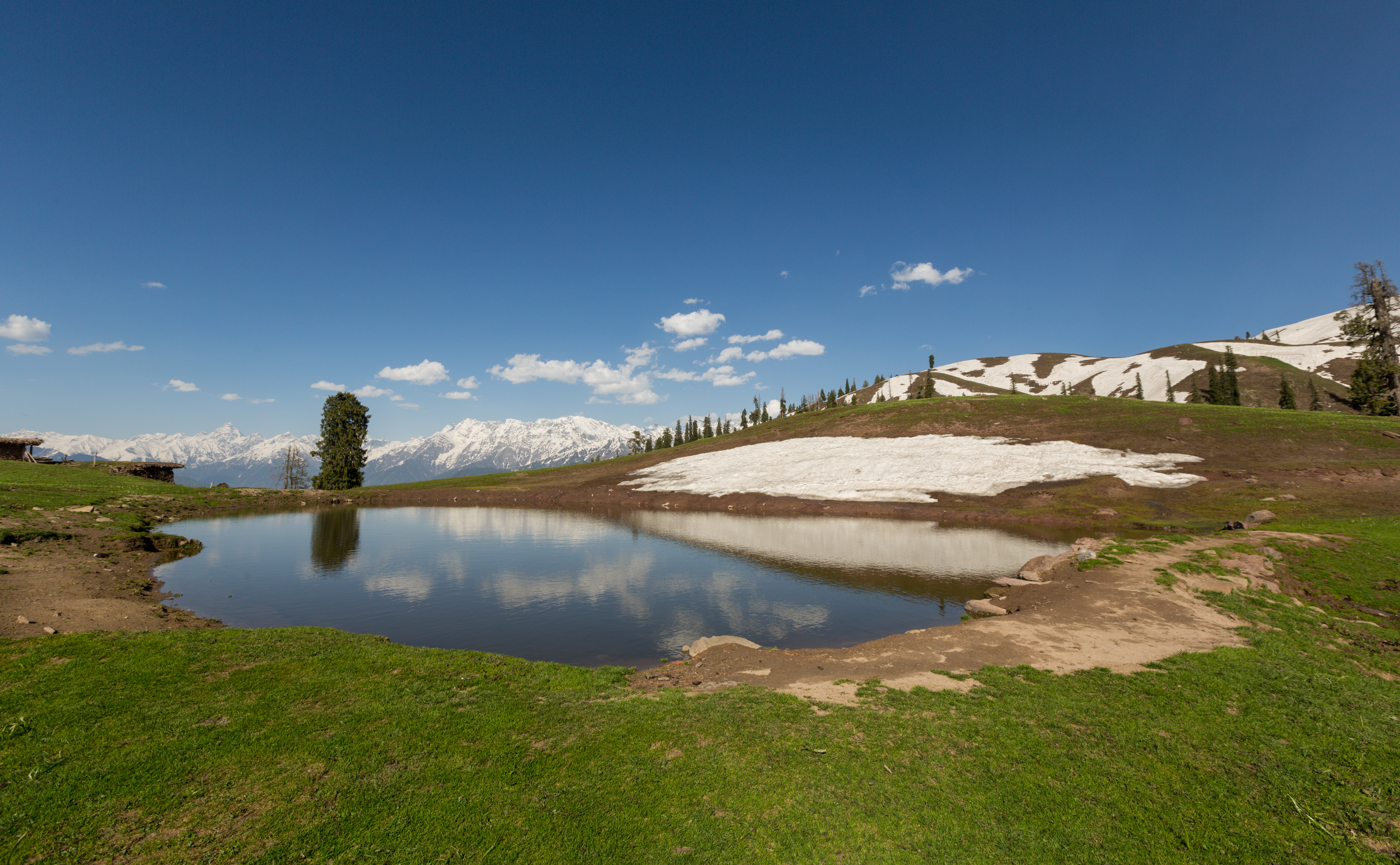 Locate within the Paaye meadows at an elevation of about 2,900 meters/9,500 feet, Paye Lake forms the base of Makra Peak and offers a stunning view of the surrounding valleys and mountains.